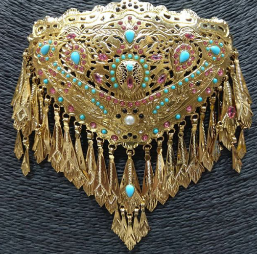 سنجاق بلوچی- نماد هنر زرگری مردم بلوچ